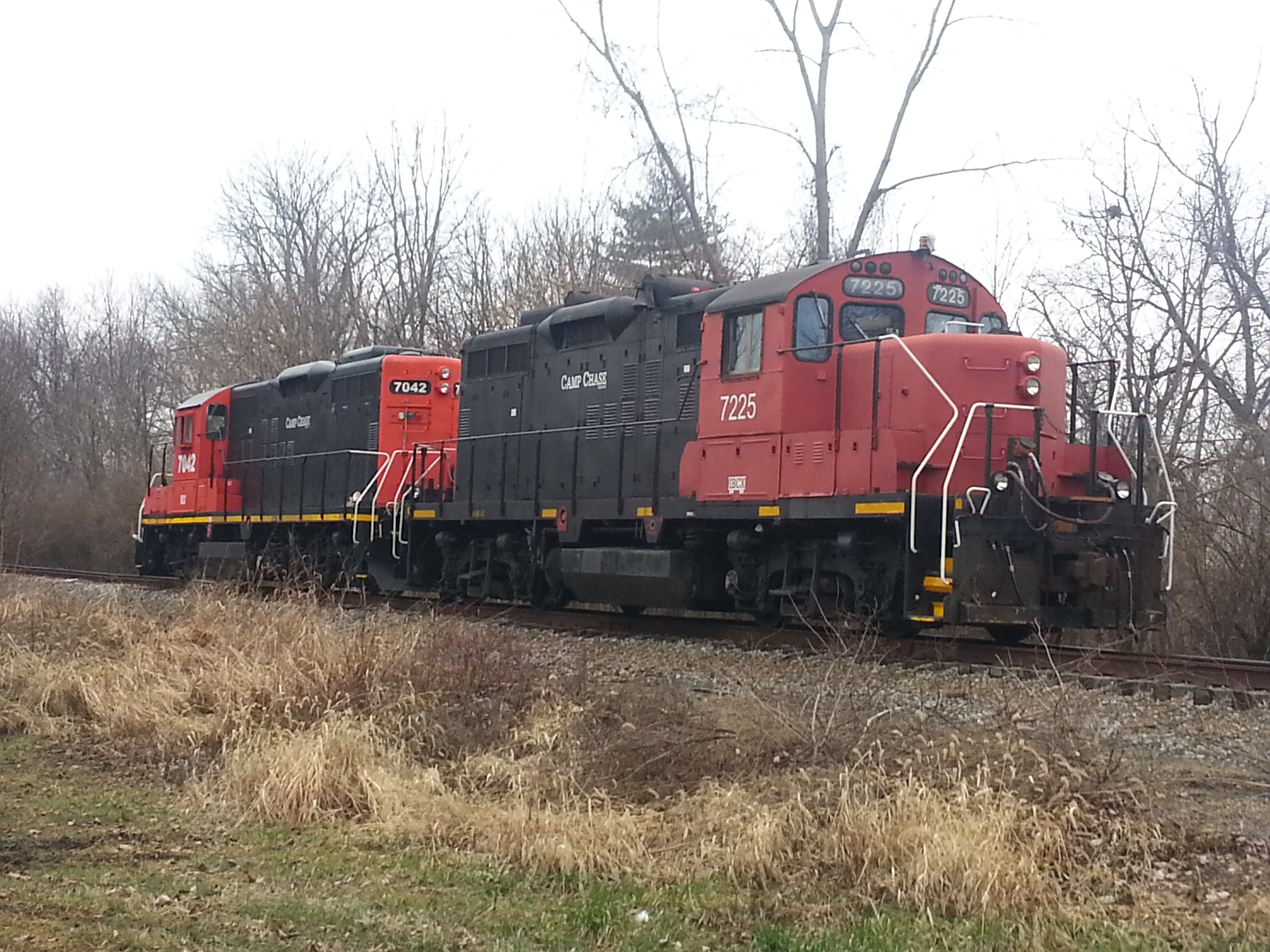 East bound Camp Chase Railroad engines 7225 and 7042, just west of the Georgesville Road underpass.